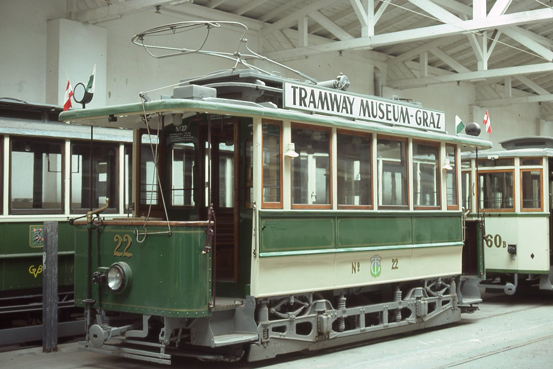 Tramway museum Graz, Car 22